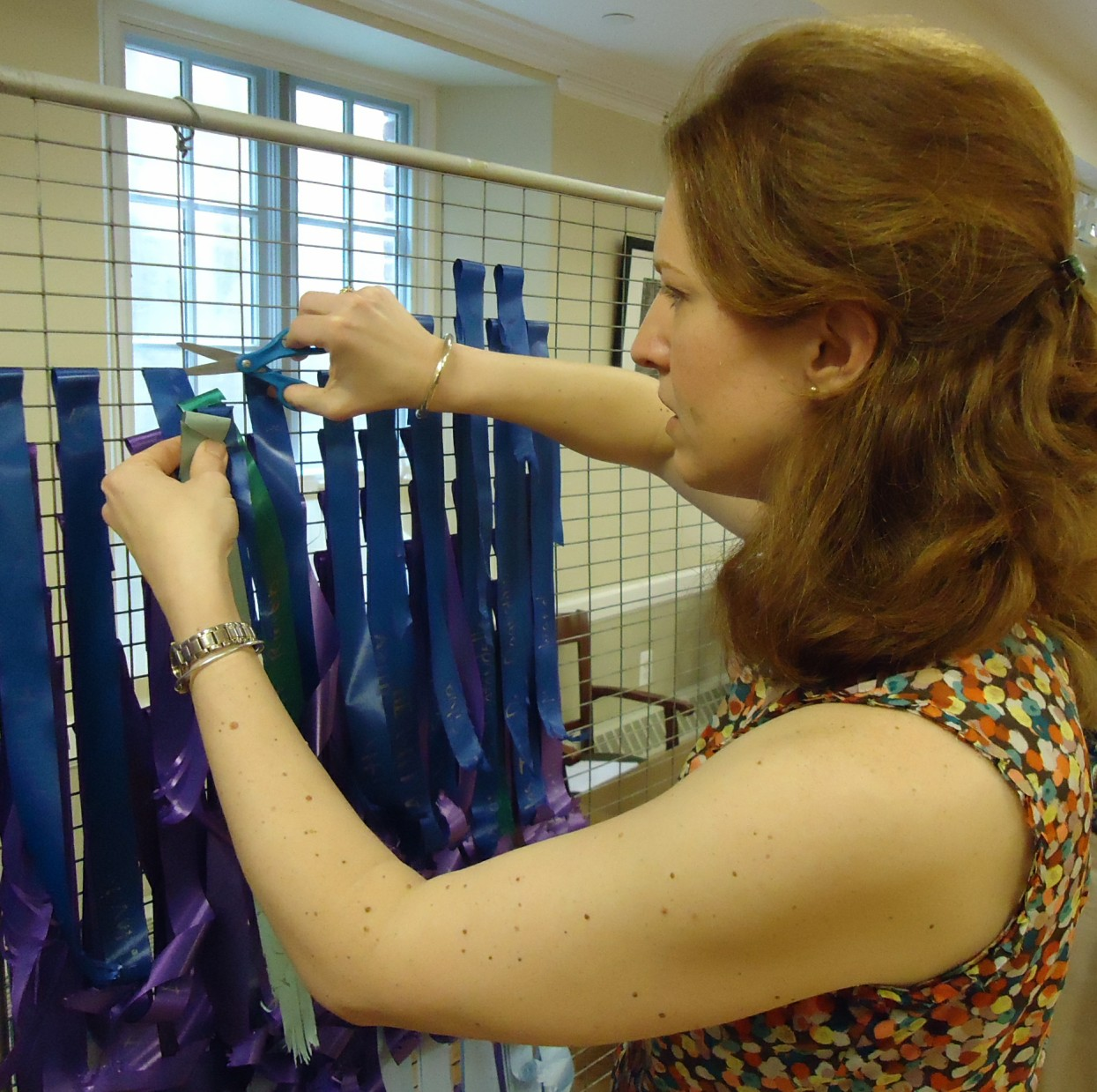 Unitarian minister Vanessa Southern removing ribbons at the church in Summit, NJ. Each ribbon represented a fallen soldier, and has his or her name written on the ribbon. The ribbons were hung on the outside of the church for several years as a tribute and memorial for the fallen soldiers. Later, the ribbons will be buried in a ceremony to honor them.